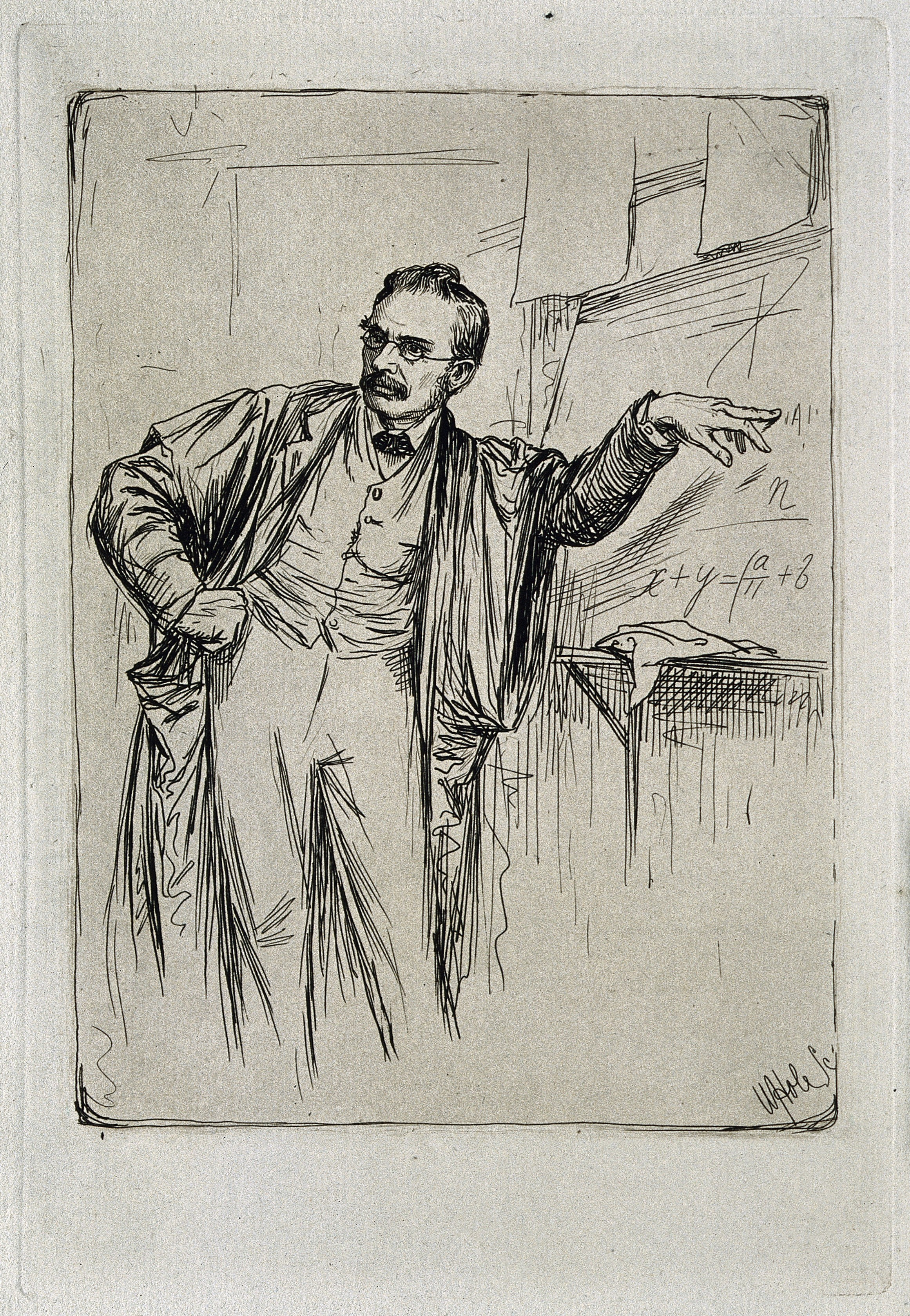 George Chrystal. Etching by W. Hole, 1884. Iconographic Collections Keywords: portrait prints; George Chrystal; chrystal, george, b. 1851; etchings